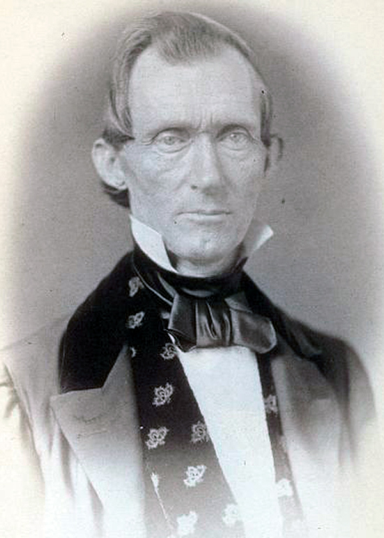 Charles Ready, US Representative from Tennessee